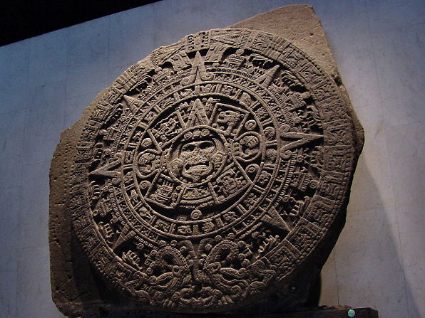 Image by George And Audrey DeLange, Release via e-mail: Hi, Bill, How fun! George and I would be delighted to have you use our photos. I'm very familiar with Wikipedia. Best Regards, Audrey Same name in english wiki